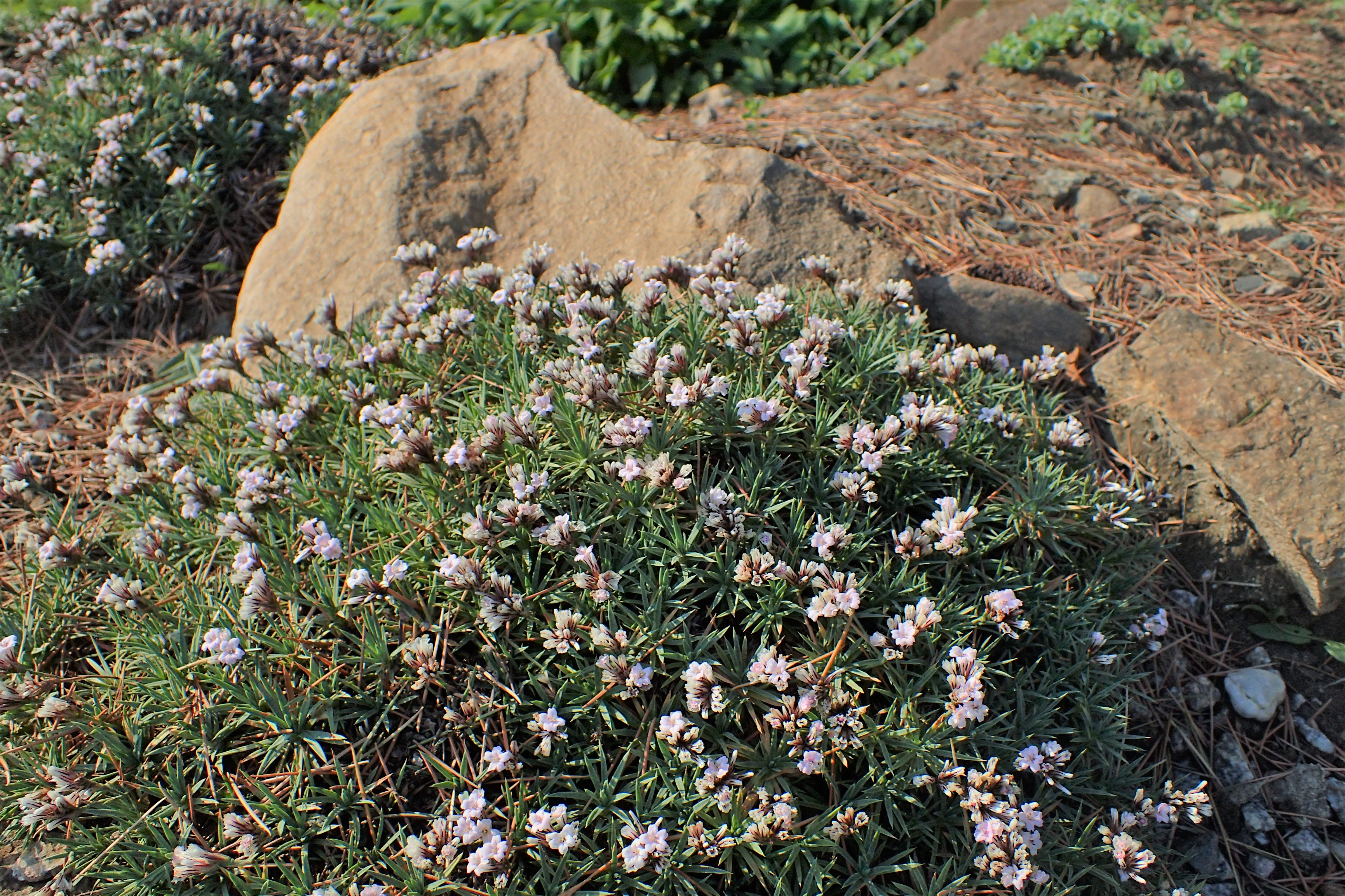 Acantholimon lycopodioides in the Botanischer Garten, Berlin-Dahlem